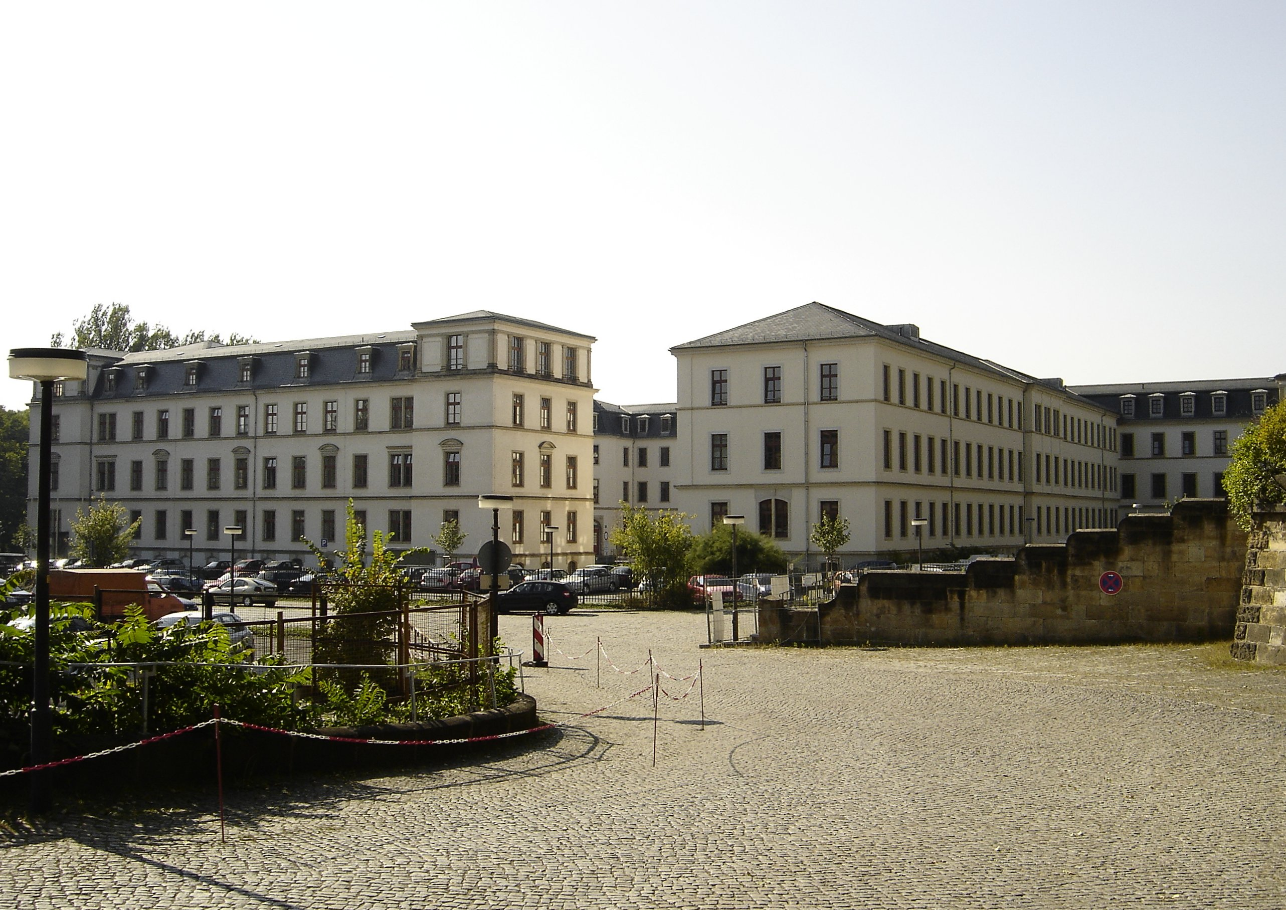 Buildings of the former military Arsenal in Albertstadt, Dresden